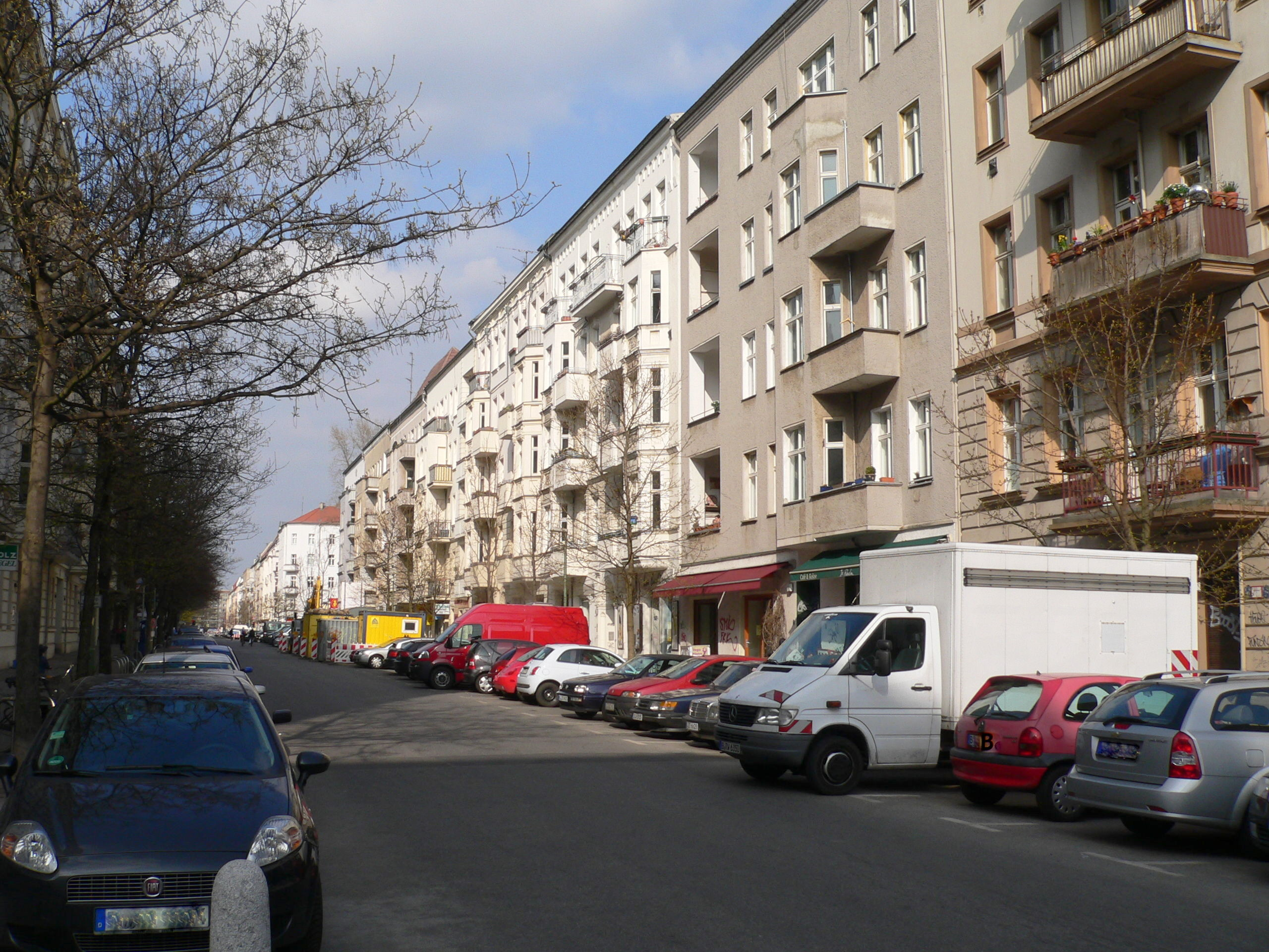 Berlin Prenzlauer Berg Winsstraße